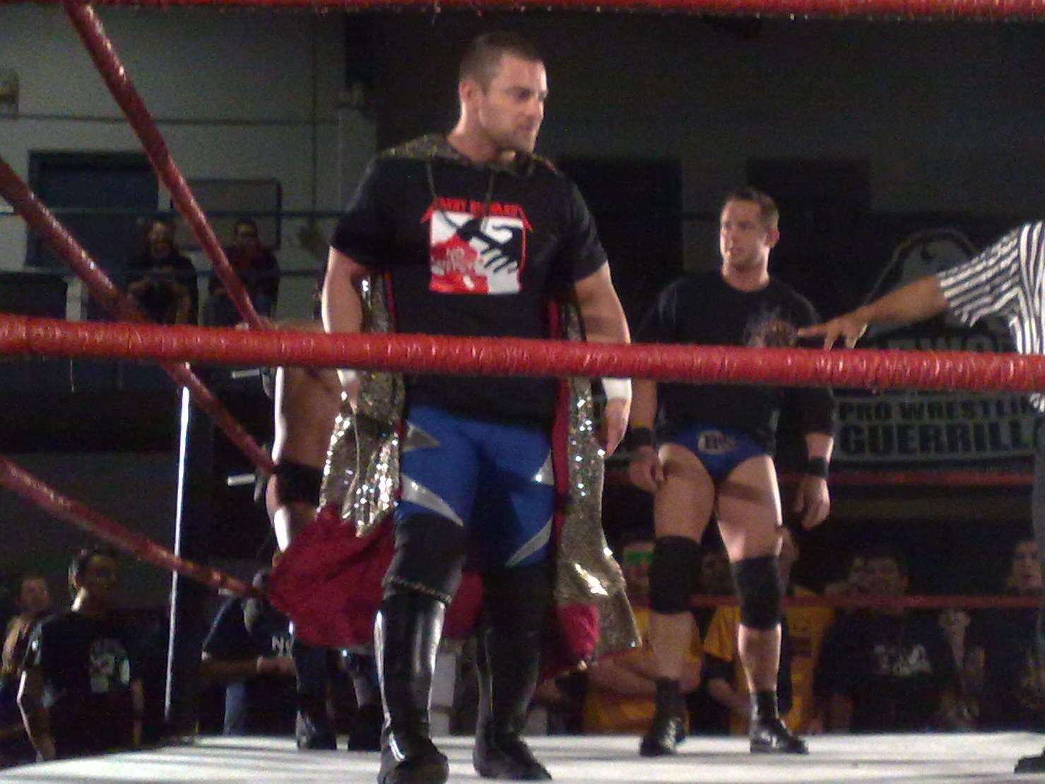 Davey Richards and Roderick Strong (two thirds of the No Remorse Corps) at Pro Wrestling Guerrilla's Battle Of Los Angeles 2008 Night 2 show on November 2, 2008.